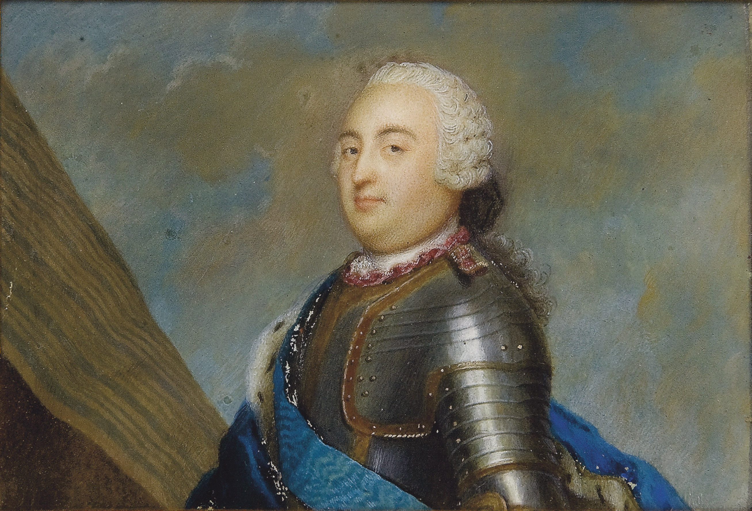 Portrait of Louis Philippe I, Duke of Orléans (1725-1785)